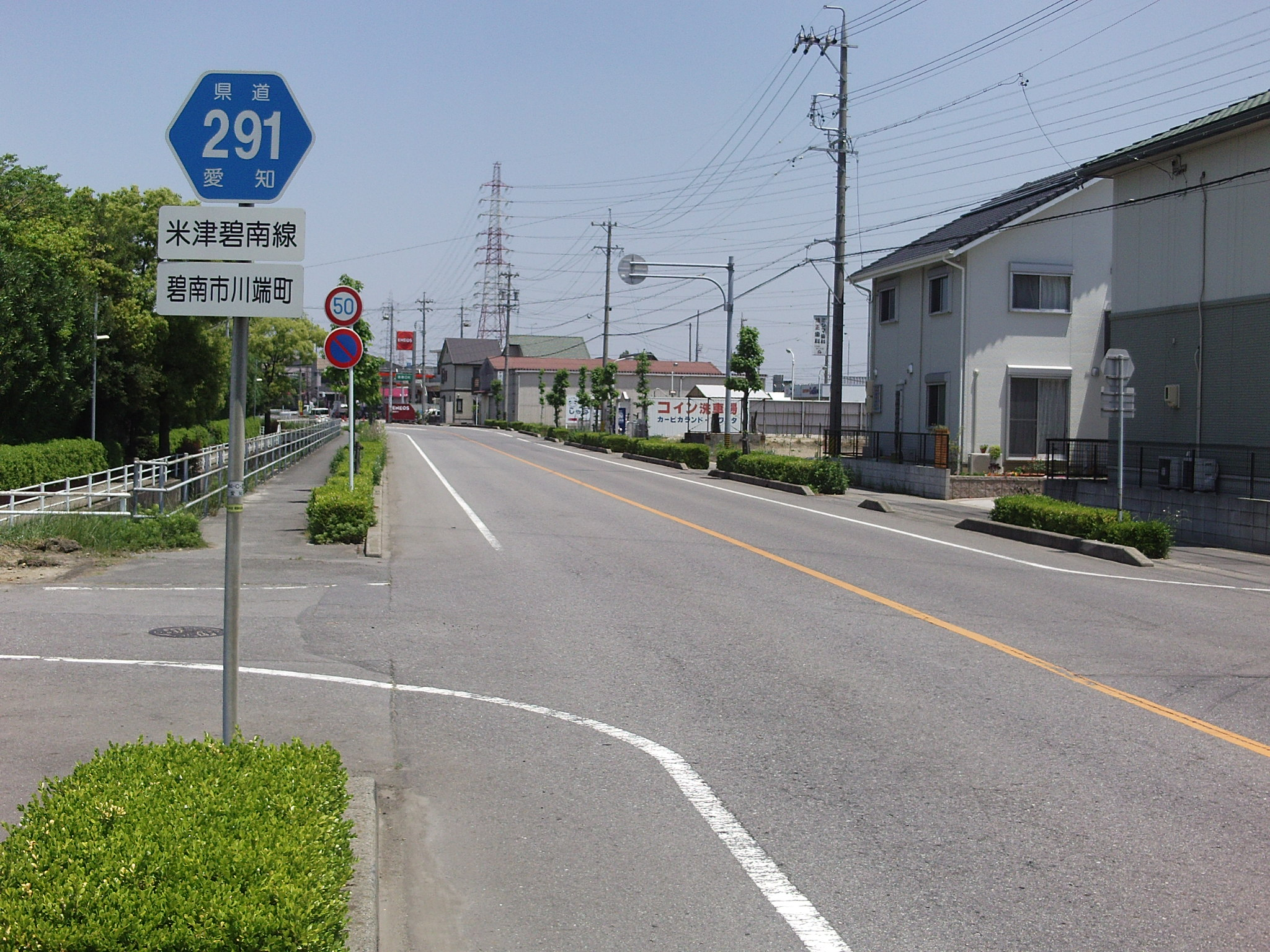 Aichi prefectural road No.291 in Kawabatamachi, Hekinan, Aichi.